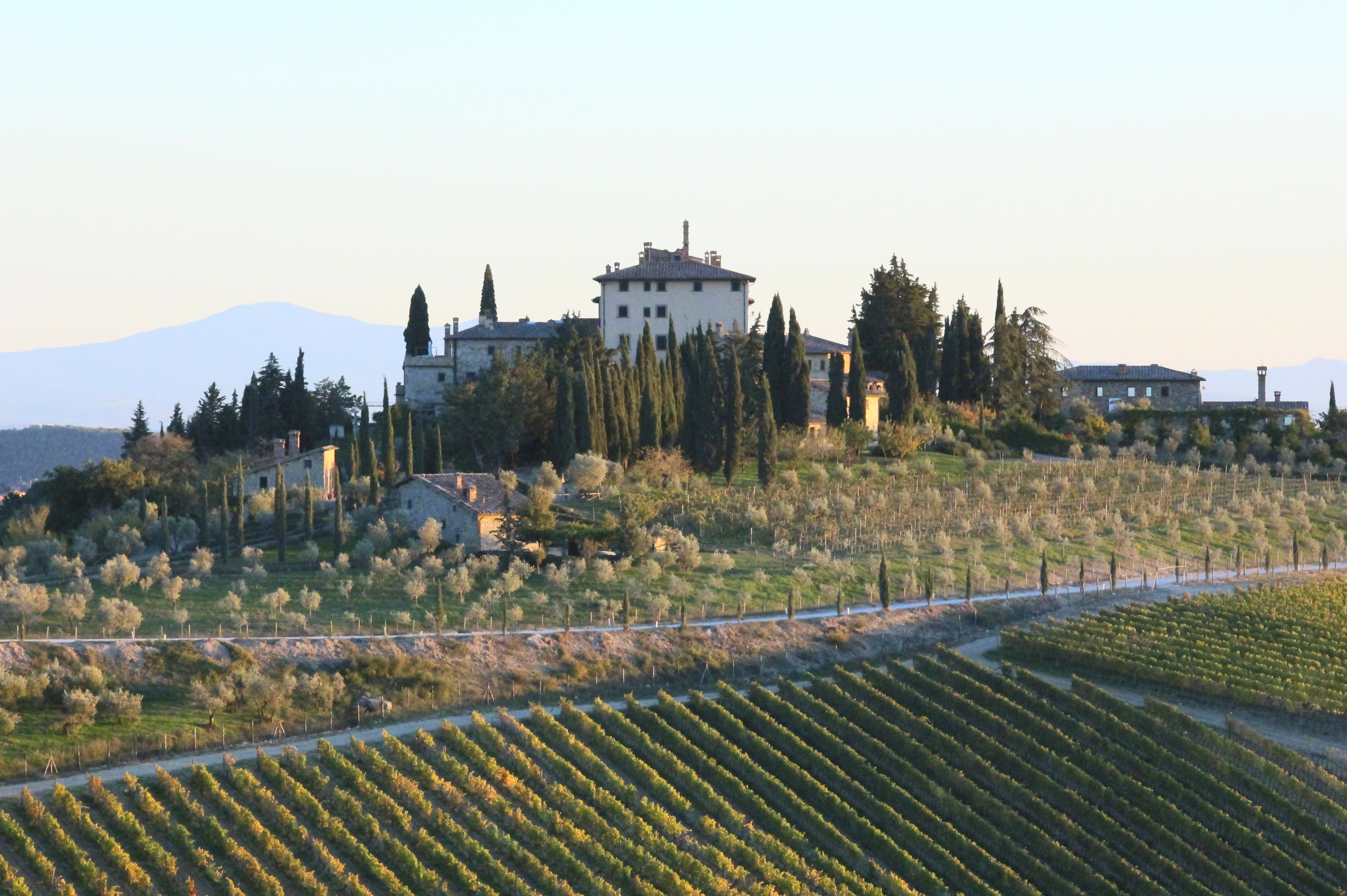 The Castle Castello di San Donato in Perano, Gaiole in Chianti, Province of Siena, Tuscany, Italy.